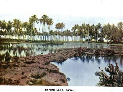 Safune lake, north coast Savai'i island, Samoa